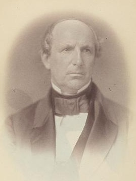 Henry Bennett, Congressman from New York